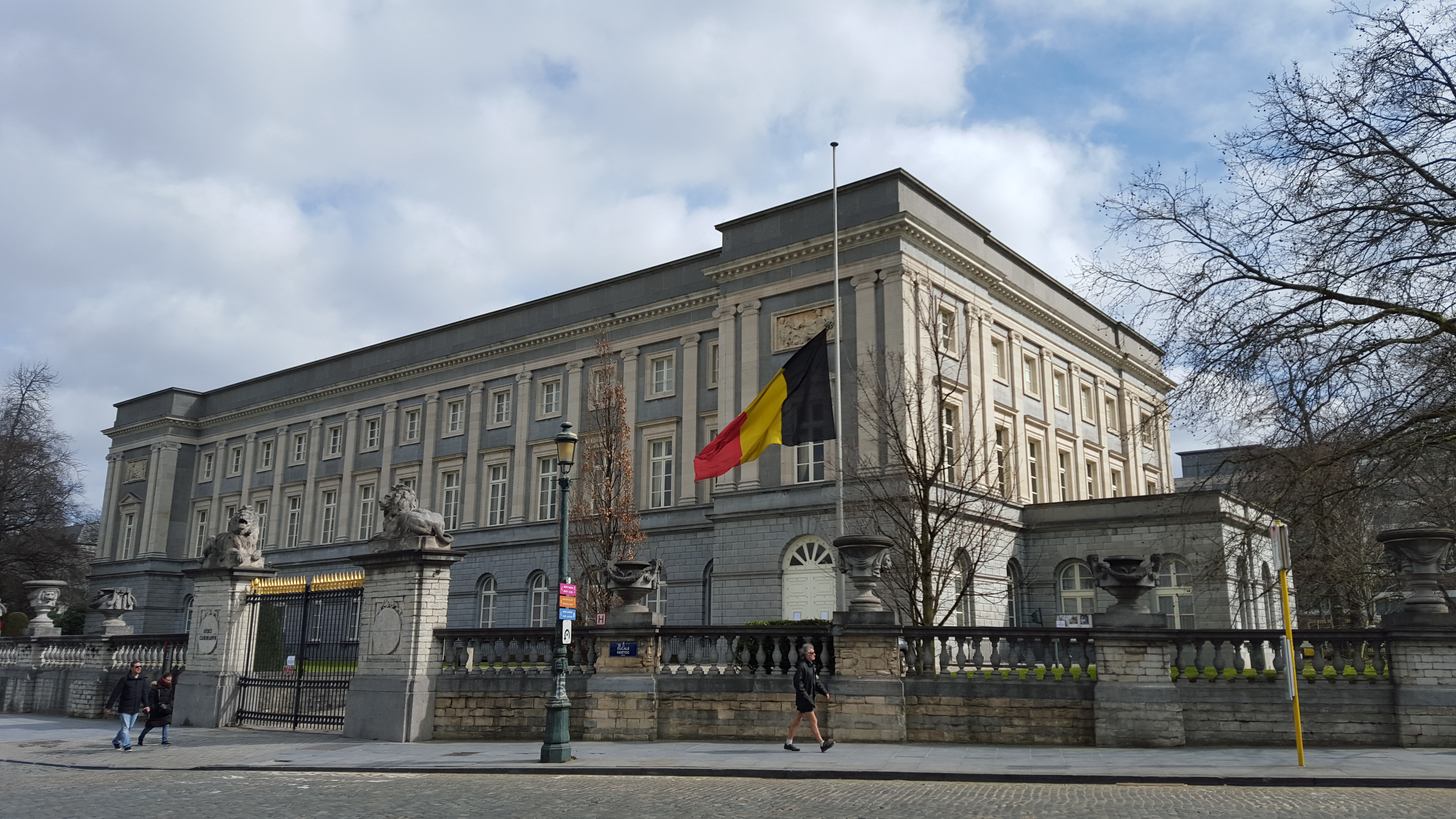 Palais des Académies at Place des Palais, Brussels after terrorist attacks in March 2016